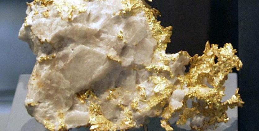 Native gold in quarz - Eagles Nest Mine, Placer County, California, USA. To make the gold crystals visible, the quartz was partially etched away. Museum für Naturkunde (Berlin).